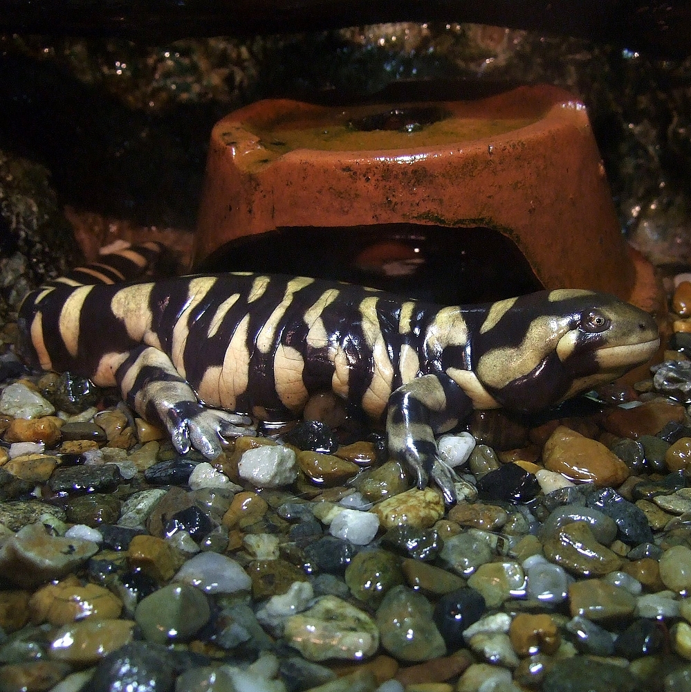 Barred tiger salamander (Ambystoma mavortium) Species Ambystoma mavortium mavortium Familia Ambystomatidae Location Tennouji Zoo, Osaka, Japan Other photos; Copyright OpenCage